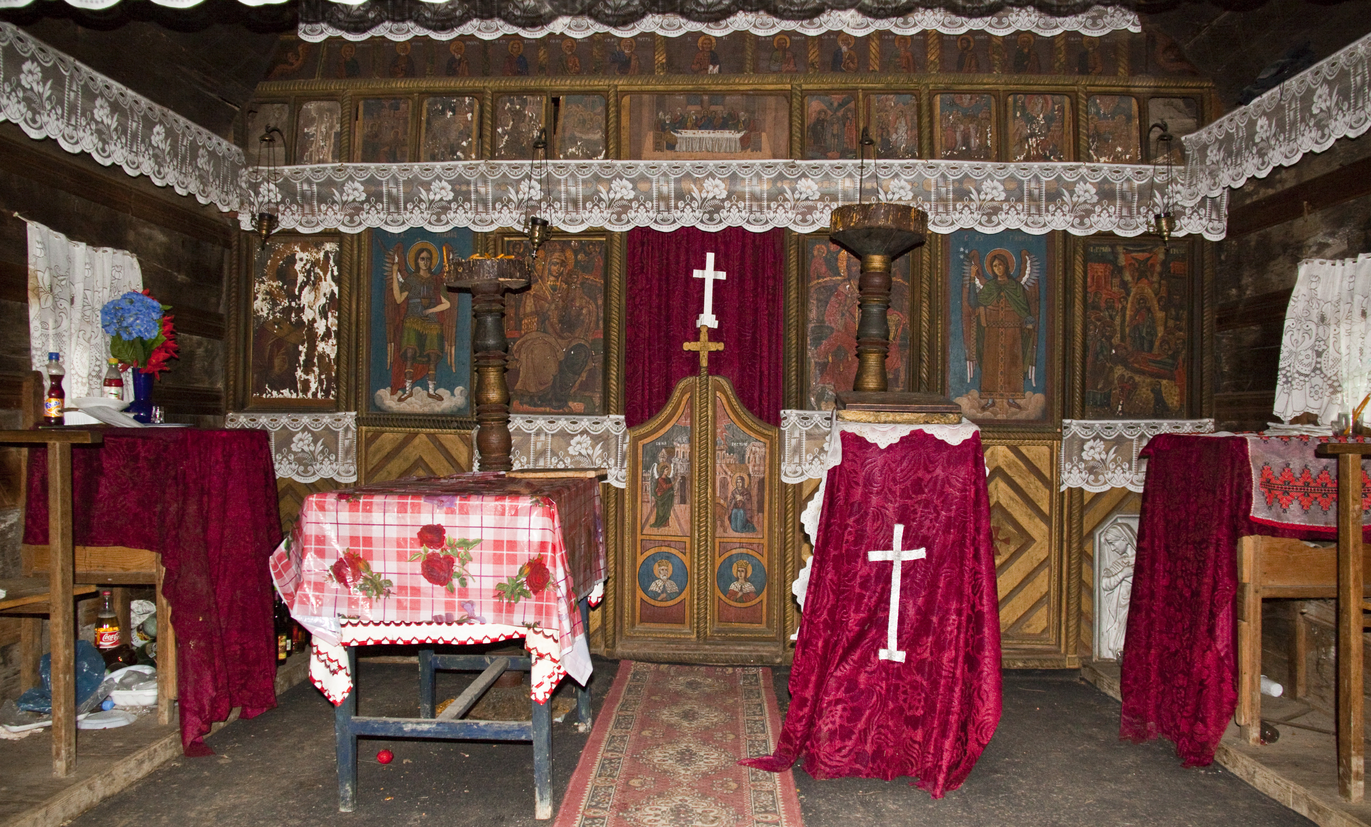 Ştefăneşti-Şcoala, Vâlcea county, Romania: the wooden church.